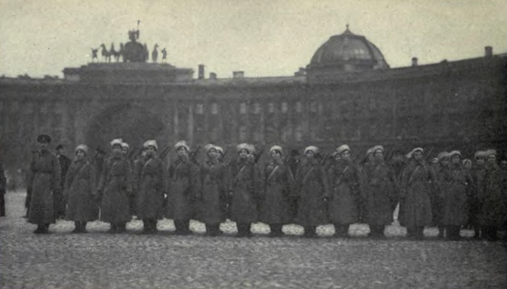 The Death Battalion, last defender of the provisional government during the Bolshevik putsch. It was made up of women.